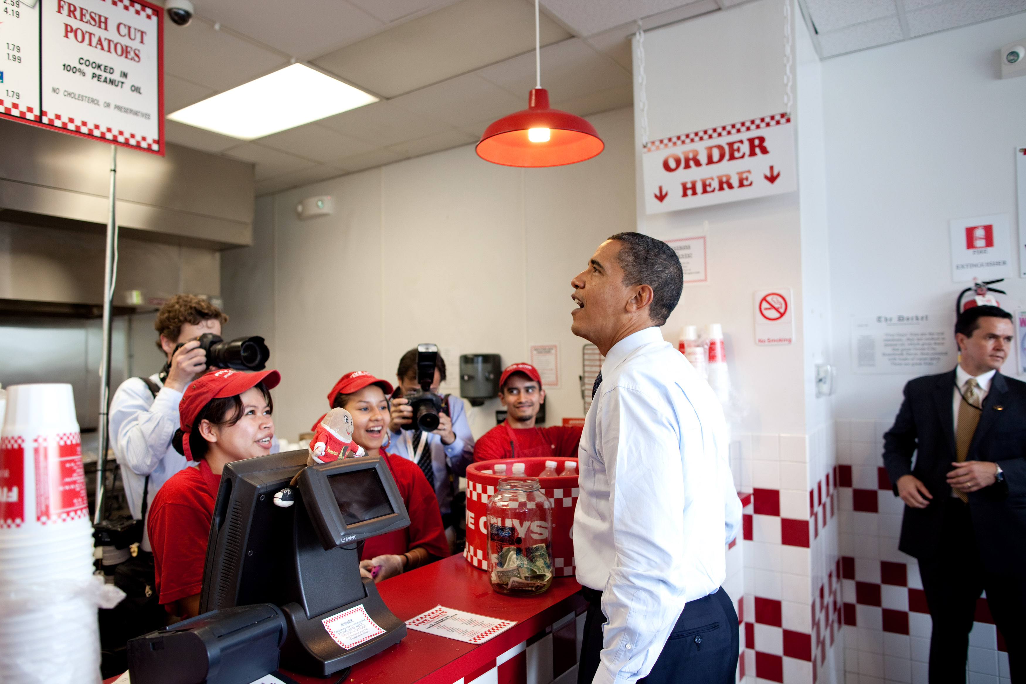 President Obama orders lunch at Five Guys in Washington, D.C. during an unannounced lunch outing May 29, 2009. (Official White House Photo by Pete Souza) This official White House photograph is being made available for publication by news organizations and/or for personal use printing by the subject(s) of the photograph. The photograph may not be manipulated in any way or used in materials, advertisements, products, or promotions that in any way suggest approval or endorsement of the President, the First Family, or the White House.